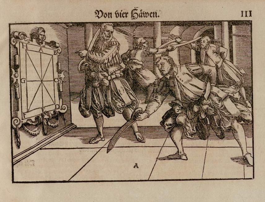 Von vier Häwen, fig. A of Meyer's Dusack section. Text (on fol. A.ii verso and A.iii verso): Wie nun der Häwe nicht mehr denn vier / also seind der Strassen oder Linien / durch welche sie gehawen werden / auch vier. [1] Also zum Ersten / die auffrecht Lini / durch welche der Obwerhaw geführt unnd gehawen / und darumb Scheitellini genandt wirde / dieweil durch solche der Mann in Linck und Recht underscheiden wirdt. [2] Die andere Schlime oder hangende Lini / durch welche der Zorn Haw geführt / wiirdt von dem Zornhaw / die Zorn sonst auch strich Lini geheissen. [3] Durch die dritte Zwerch oder mittel Lini / wirdt der Mittelhaw volbracht. [4] Die vierdte Schlime auffsteigende Lini / weisset den underhaw seinen weg / gleich wie sie dem Zornhauw / von der anderen seythen / von oben herab den weg zeigt.